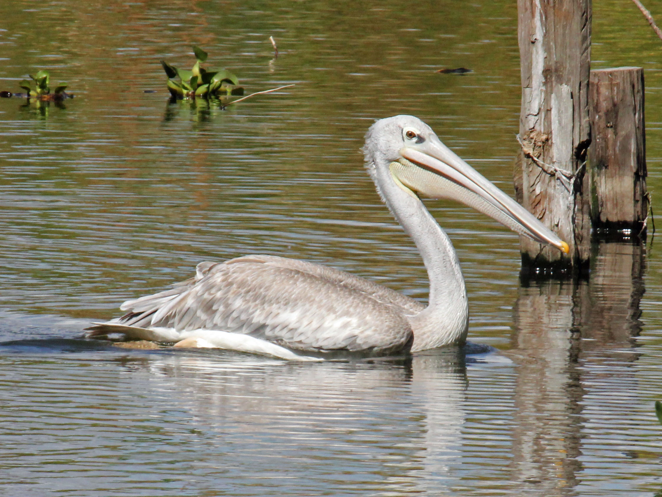 Pink-backed Pelican (Pelecanus rufescens) - Fish Eagle Lodge, Knysna Lagoon, Kenya